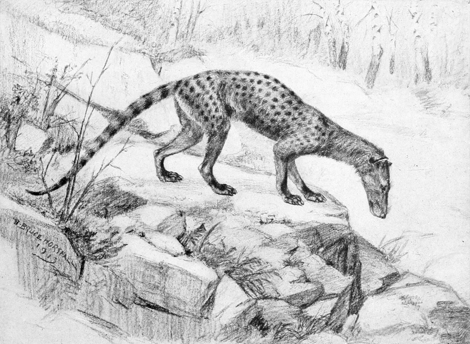 Life restoration of Tritemnodon agilis from W. B. Scott's (1858–1947) A History of Land Mammals in the Western Hemisphere. New York: The Macmillan Company.